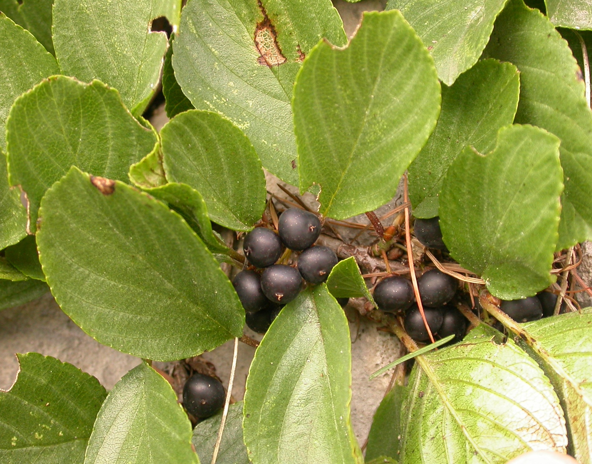 Flowering Rhamnus pumila, Triglav